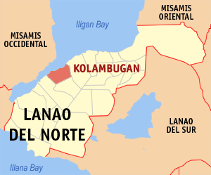 Map of the Lanao del Norte showing the location of Kolambugan